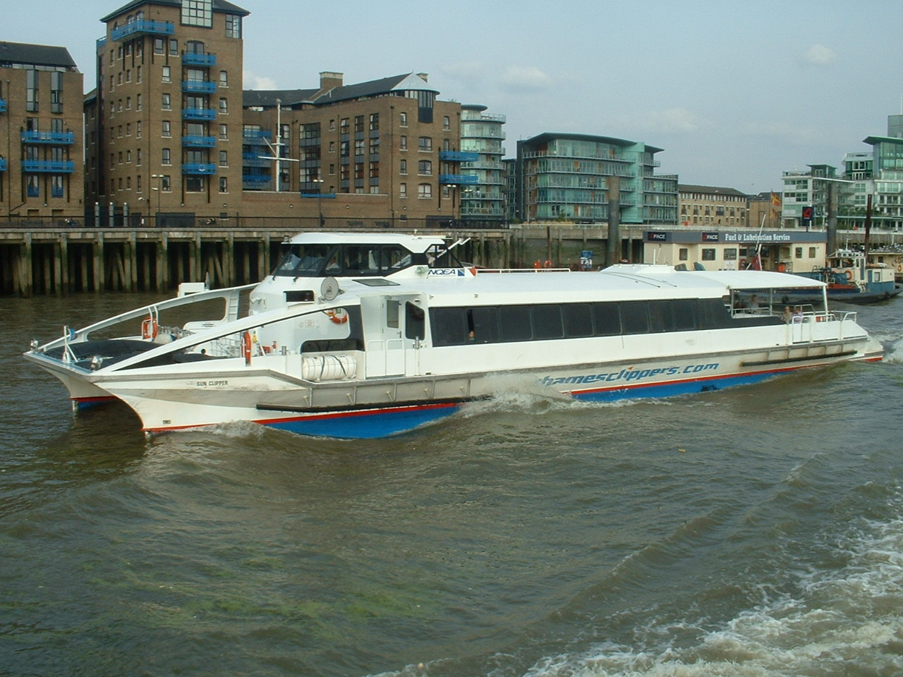 Thames Clipper (Sun Clipper) heading upstream east of Tower Bridge. Built in 2001 as Antrim Runner for service on Belfast Lough. After construction in 2001 (by NQEA) she spent the majority of her time abroad, including a stint in Nigeria where she was scheduled to be used as crew personnel carrier for an oil company. In 2005 she rejoined the fleet on the River Thames. 138 seats Speed 25 knots Ultra low wash design Length 32 metres Width 7.80 metres Waterline length 30.6 metres Beam 8.13 metres Twin-engine and propeller driven